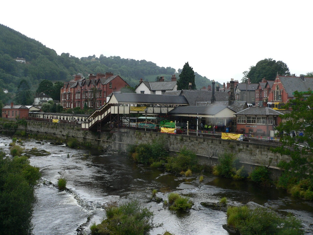 Llangollen station on the Llangollen Railway, a heritage line in north Wales. Photographed from the town bridge over the River Dee (Afon Ddyfrdwy)